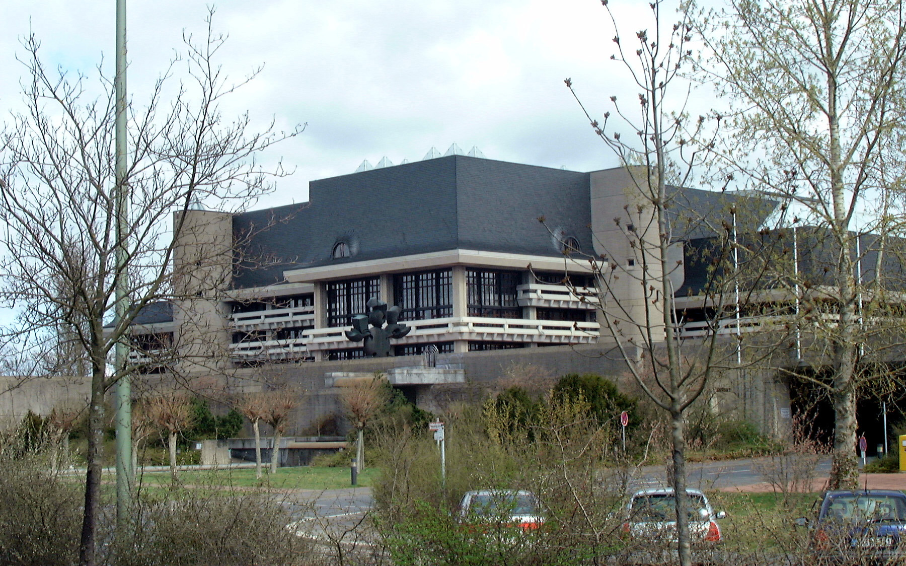 Wuerzburg University, Main Library